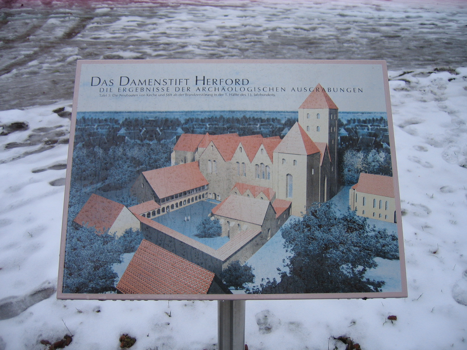 in Herford, District of Herford, North Rhine-Westphalia, Germany. Reconstruction of the abbey church.